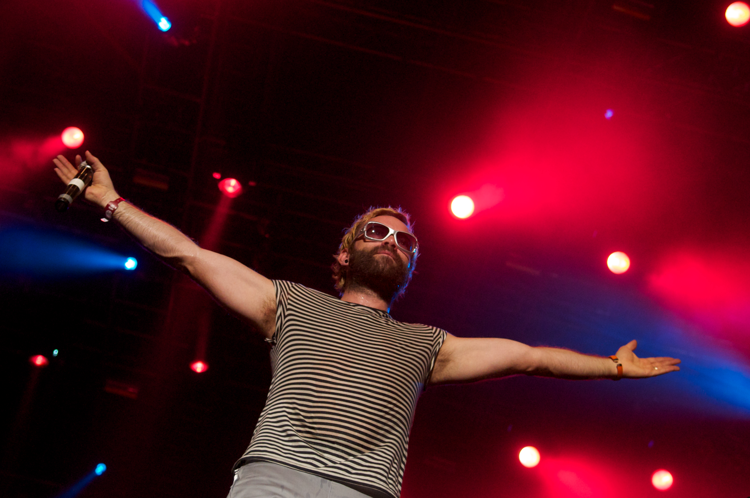 Ewan Macfarlane from Apollo 440, Spirit of Burgas 2010